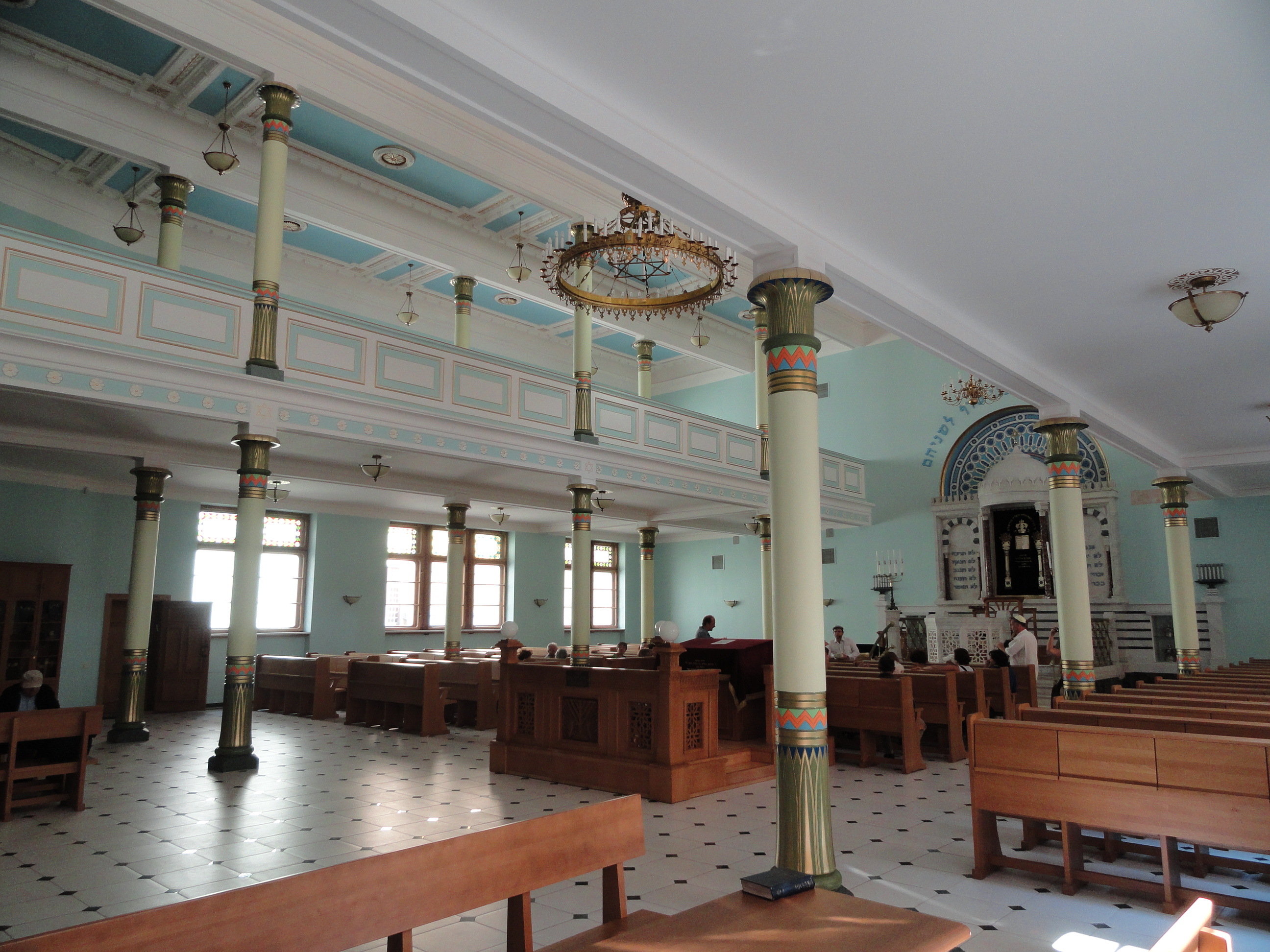 Synagogue of Riga (Litvia). General interior view. Front the Bimah - Back: the Aron Kodesh